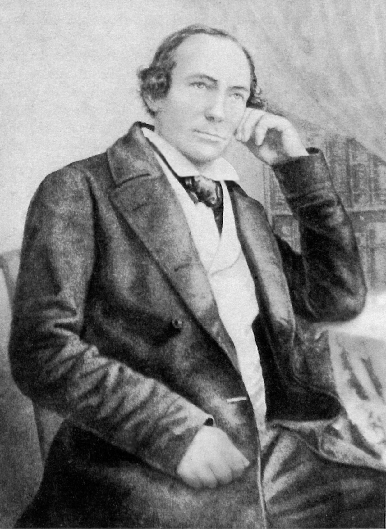 Georg Friedrich Daumer (photography)